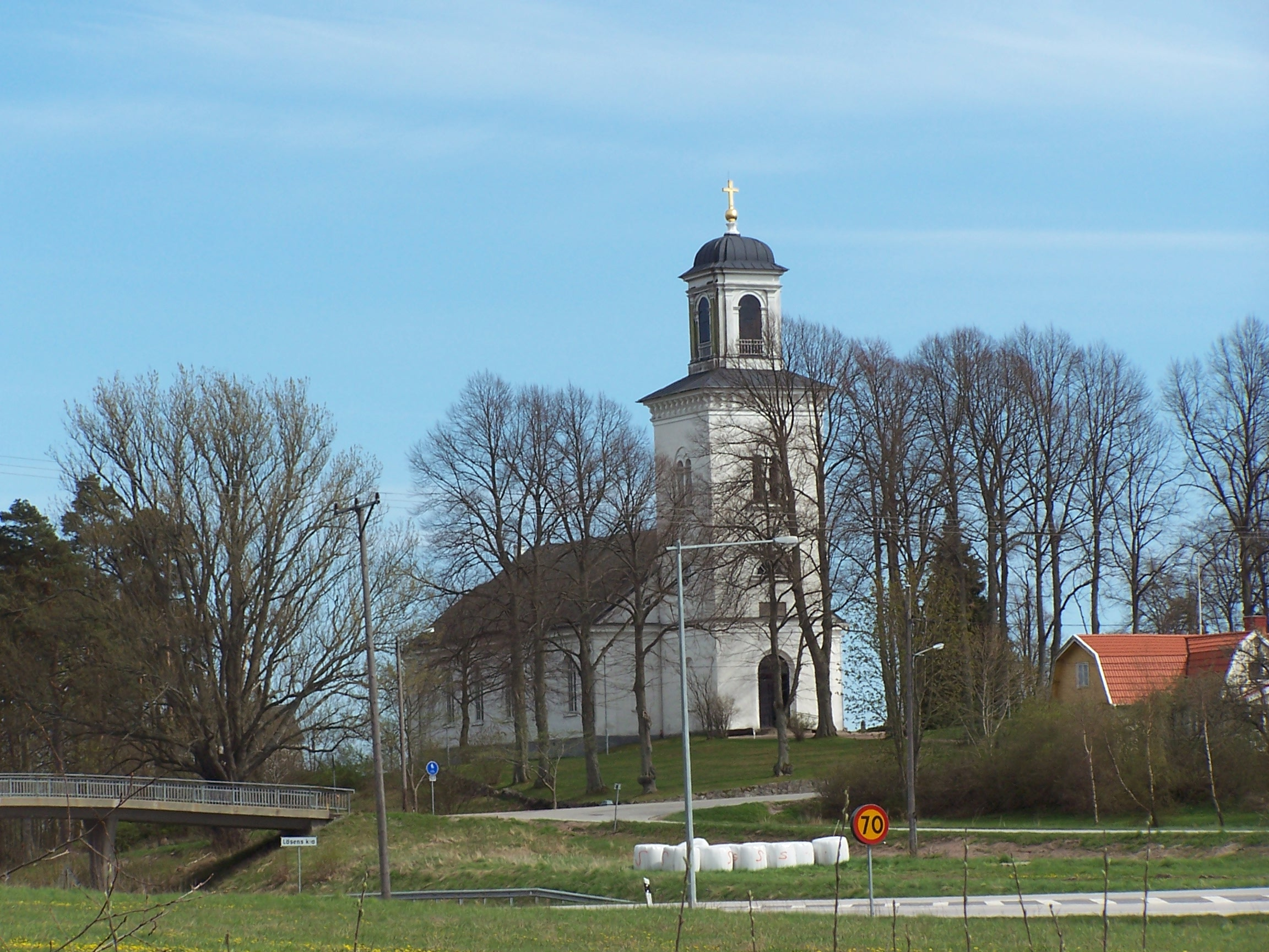 Lösen church, Karlskrona (diocese of Lund)